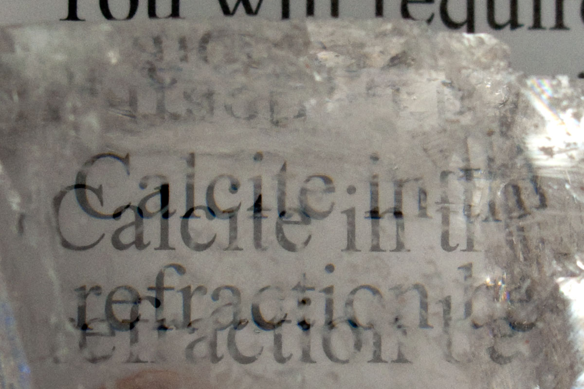 A photo of some text being double-refracted in a calcite crystal specimen (Iceland Spar).